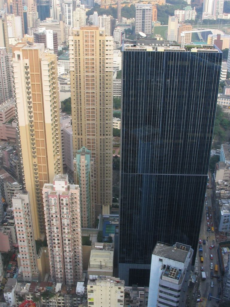 尚翹峰(左)及陽光中心(右，前稱皇后大道東248號、萬誠保險大廈) The Zenith (left) & Sunlight Tower (right, f.k.a. 248 Queen's Road East, MLC Tower)